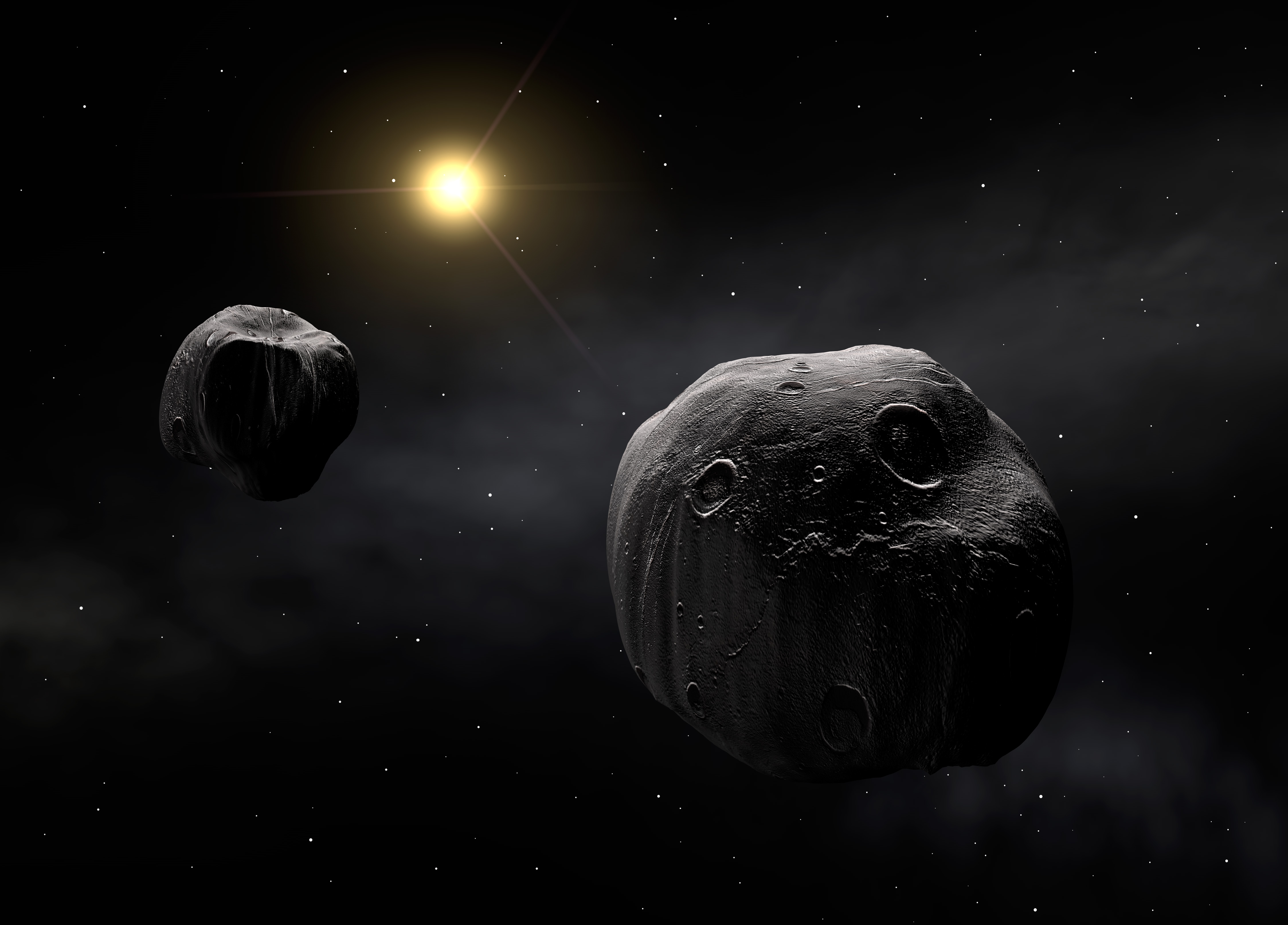 Artist's impression of the double asteroid 90 Antiope. Both components are shown to have a quasi-spherical shape.